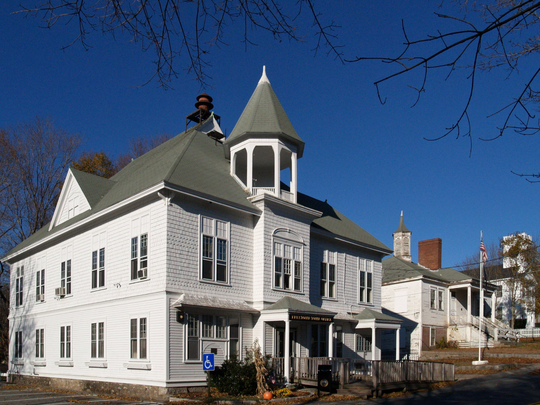 Freetown Historic District, Freetown (Assonet), Massachusetts